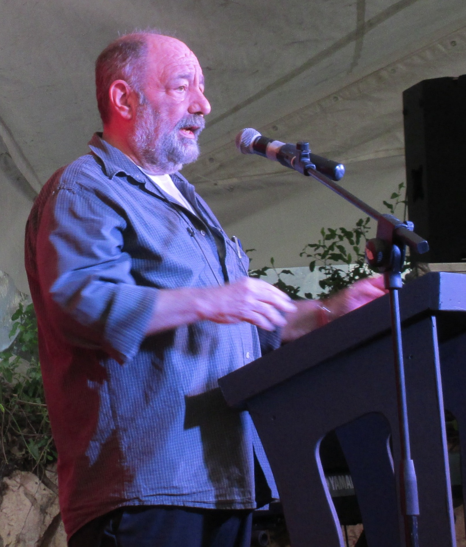 micha levinson (speaking), director of "beit zvi" school for the performing arts in ramat gan מיכה לבינסון בטקס זיכרון לגרי בילו ב"בית צבי"